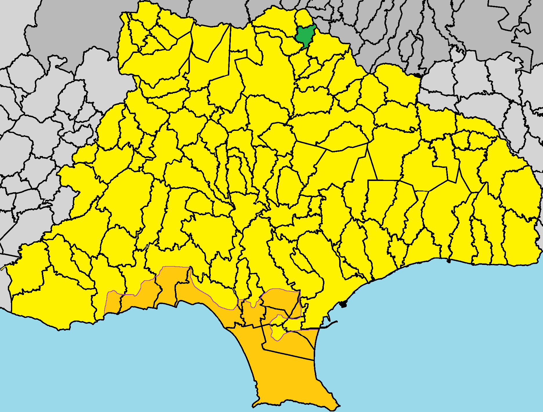 Agridia in Limassol District.